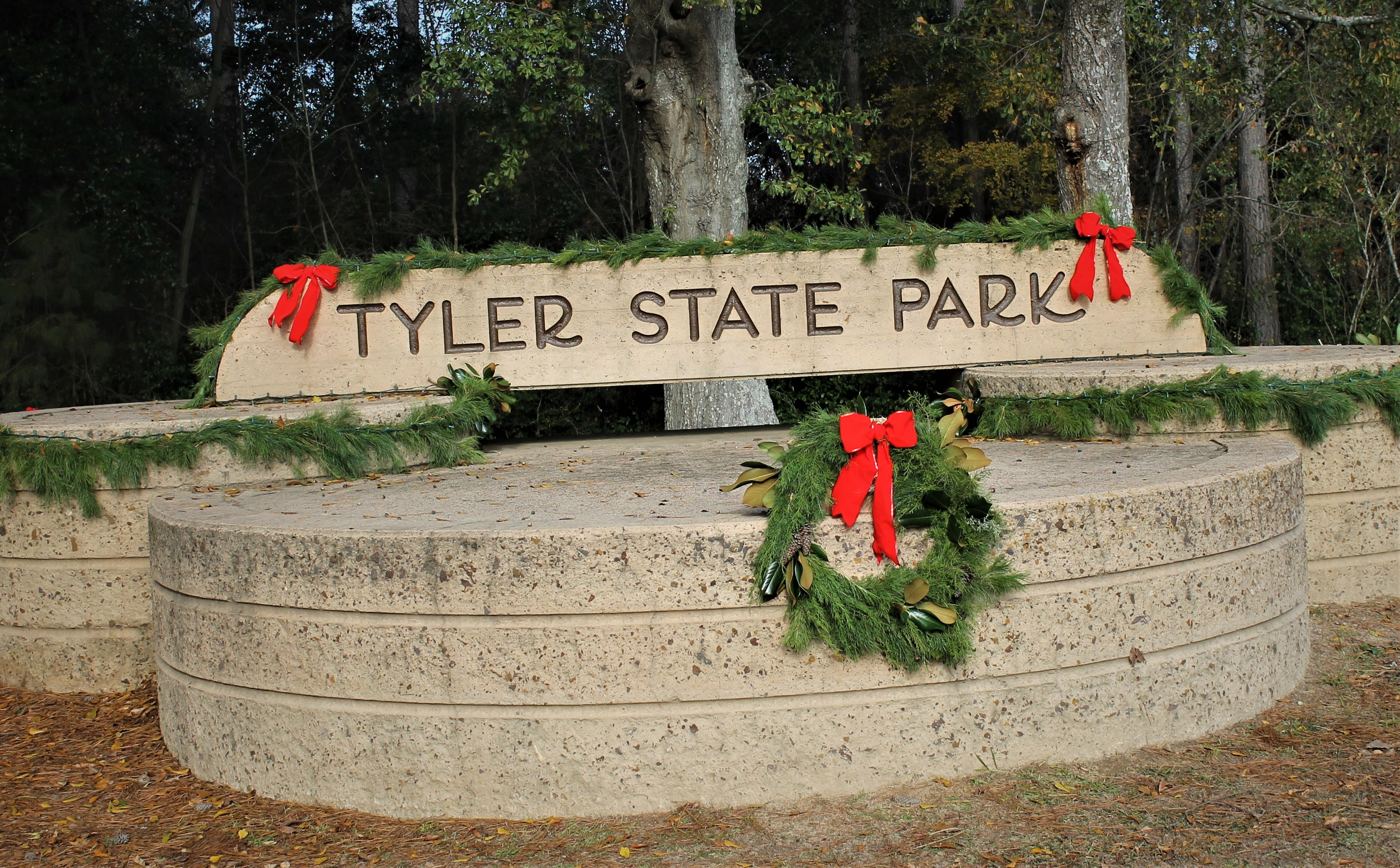 Entrance sign to Tyler State Park, Tyler, TX, at Christmas